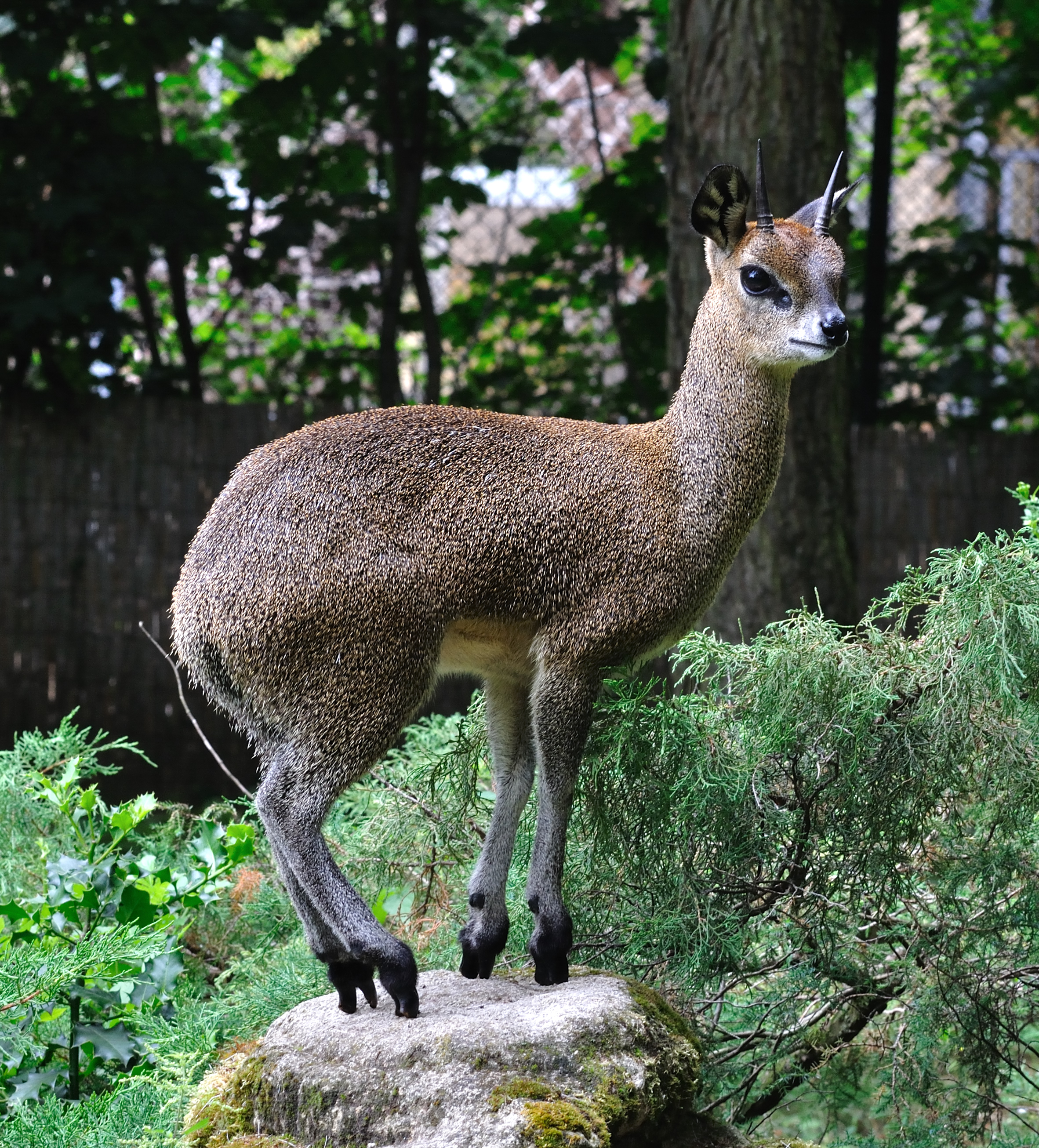 Male Klipspringer (Oreotragus oreotragus) in the Frankfurt Zoo.